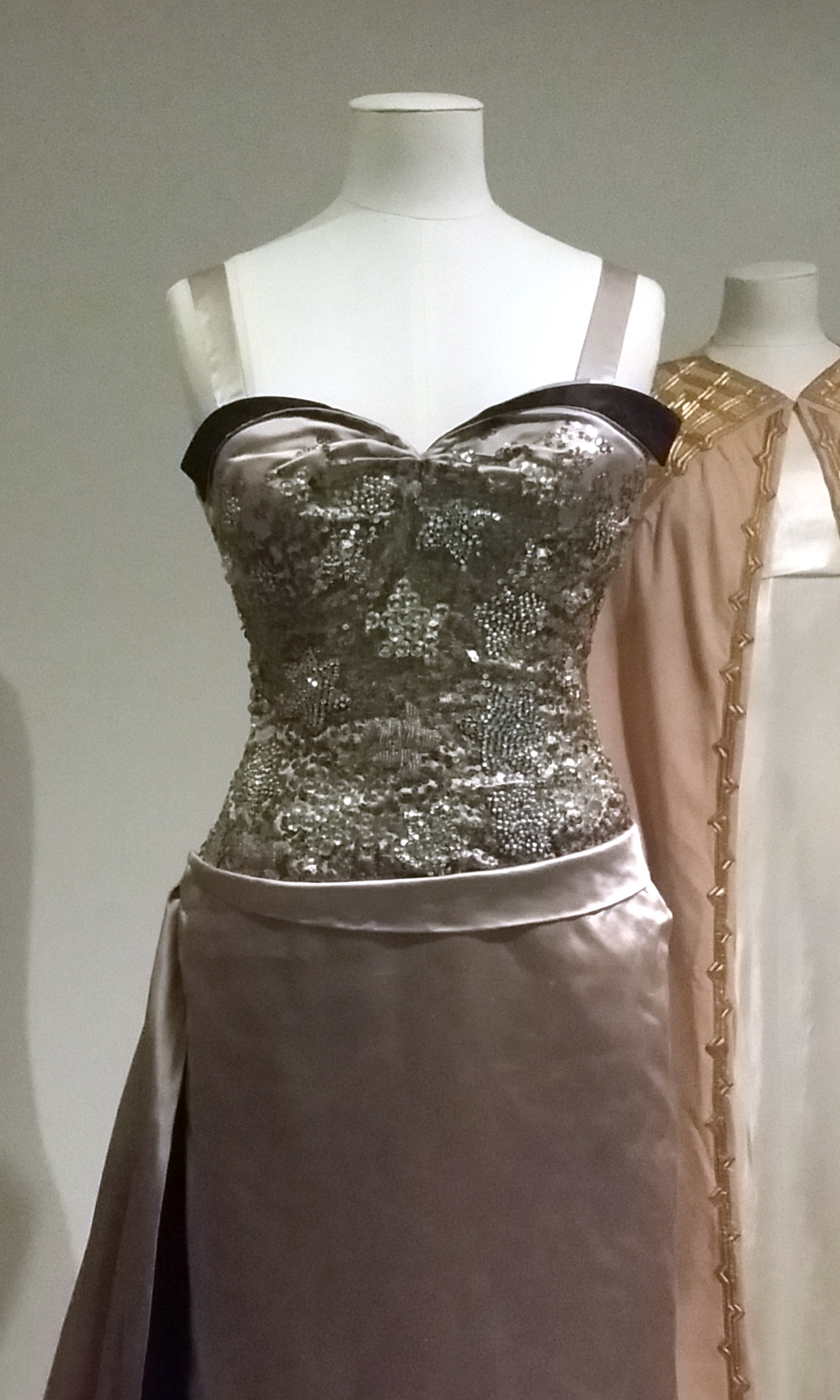 Late 1950s pink silk satin gown with beaded embroidery.